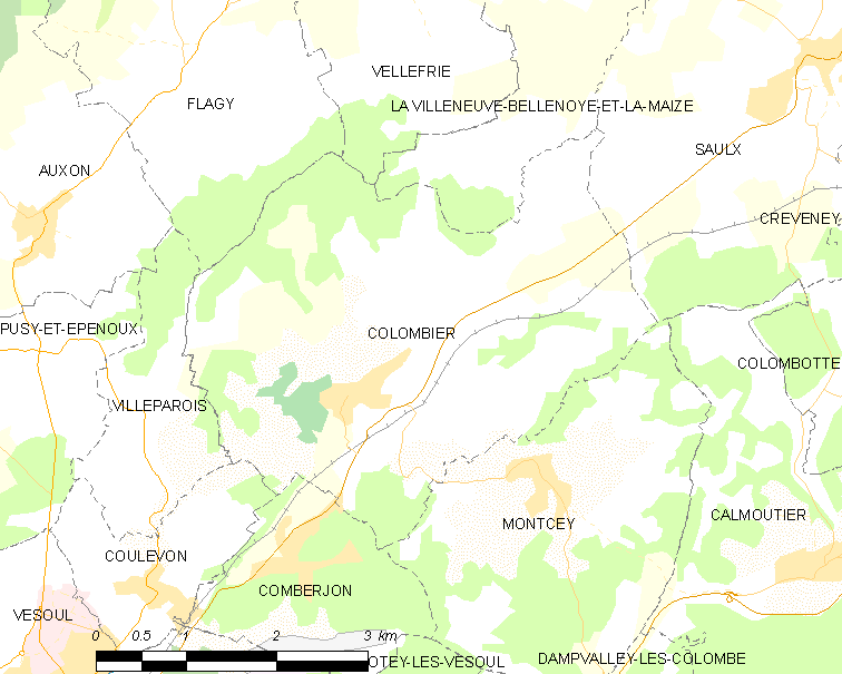 Map of French municipality